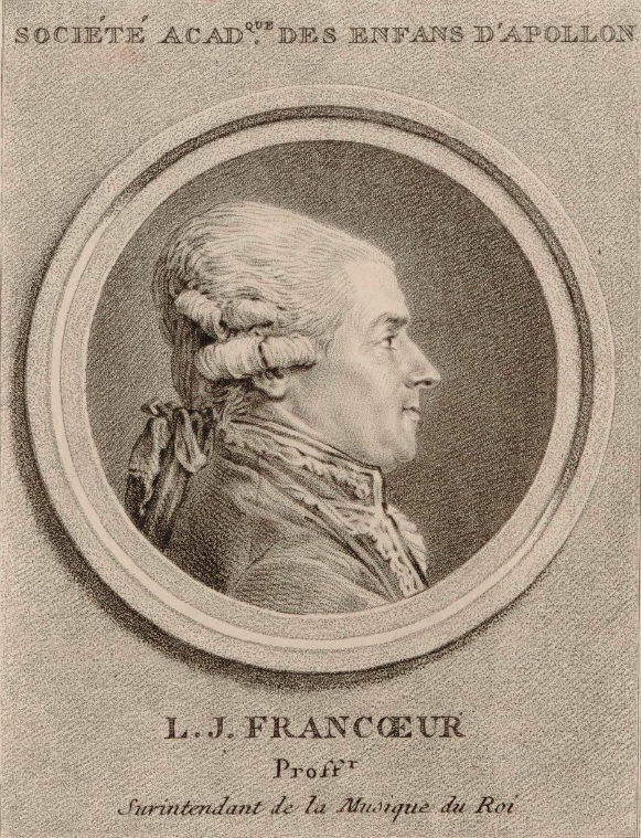 Portrait of Louis-Joseph Francoeur (1738–1804), French violinist, engraving of Lingée after the drawing by Moreau